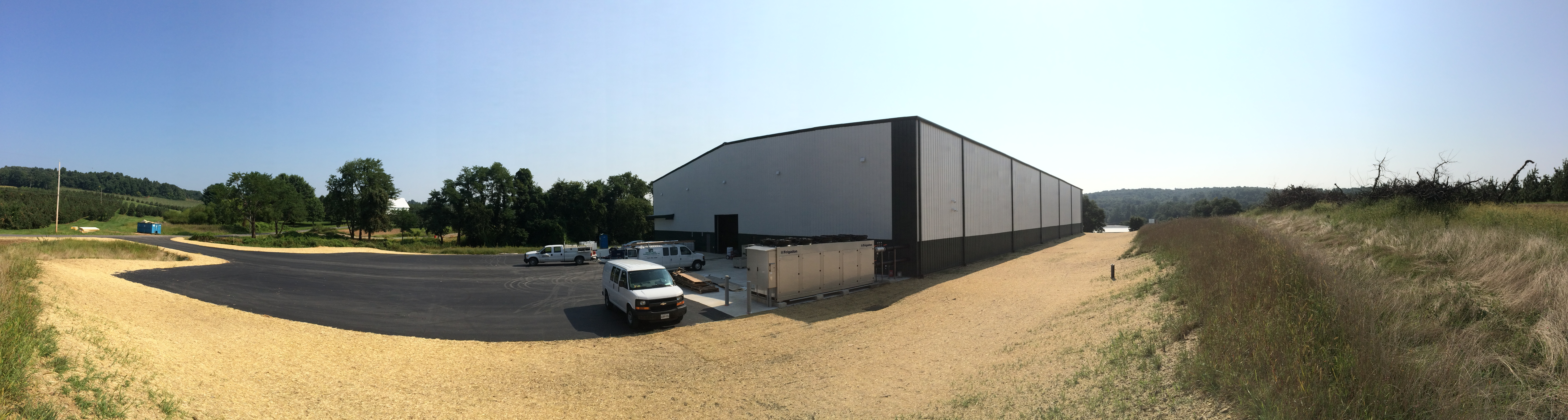 Storage Control controlled atmosphere building for apples